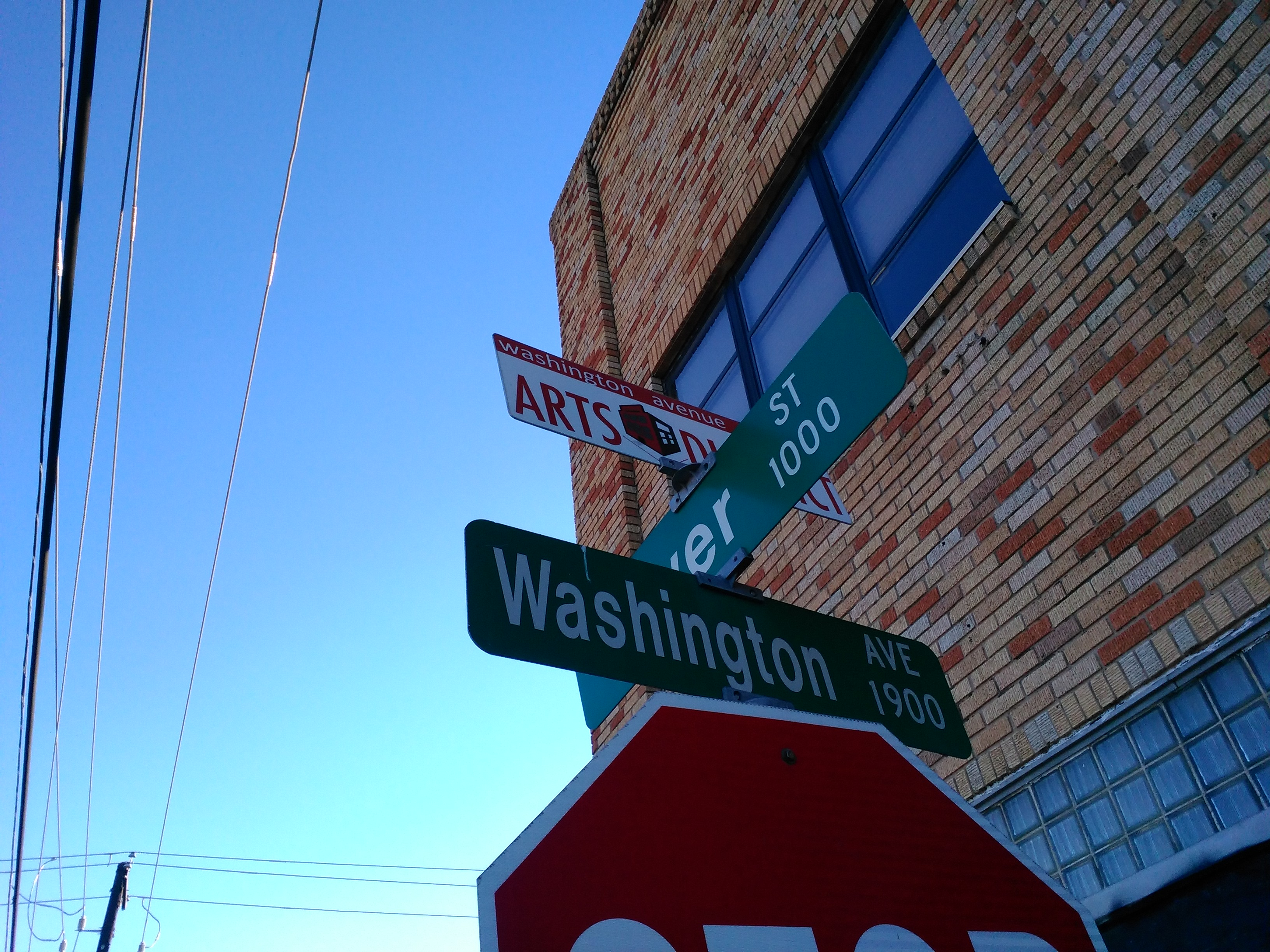 Washington Avenue Corridor Sign